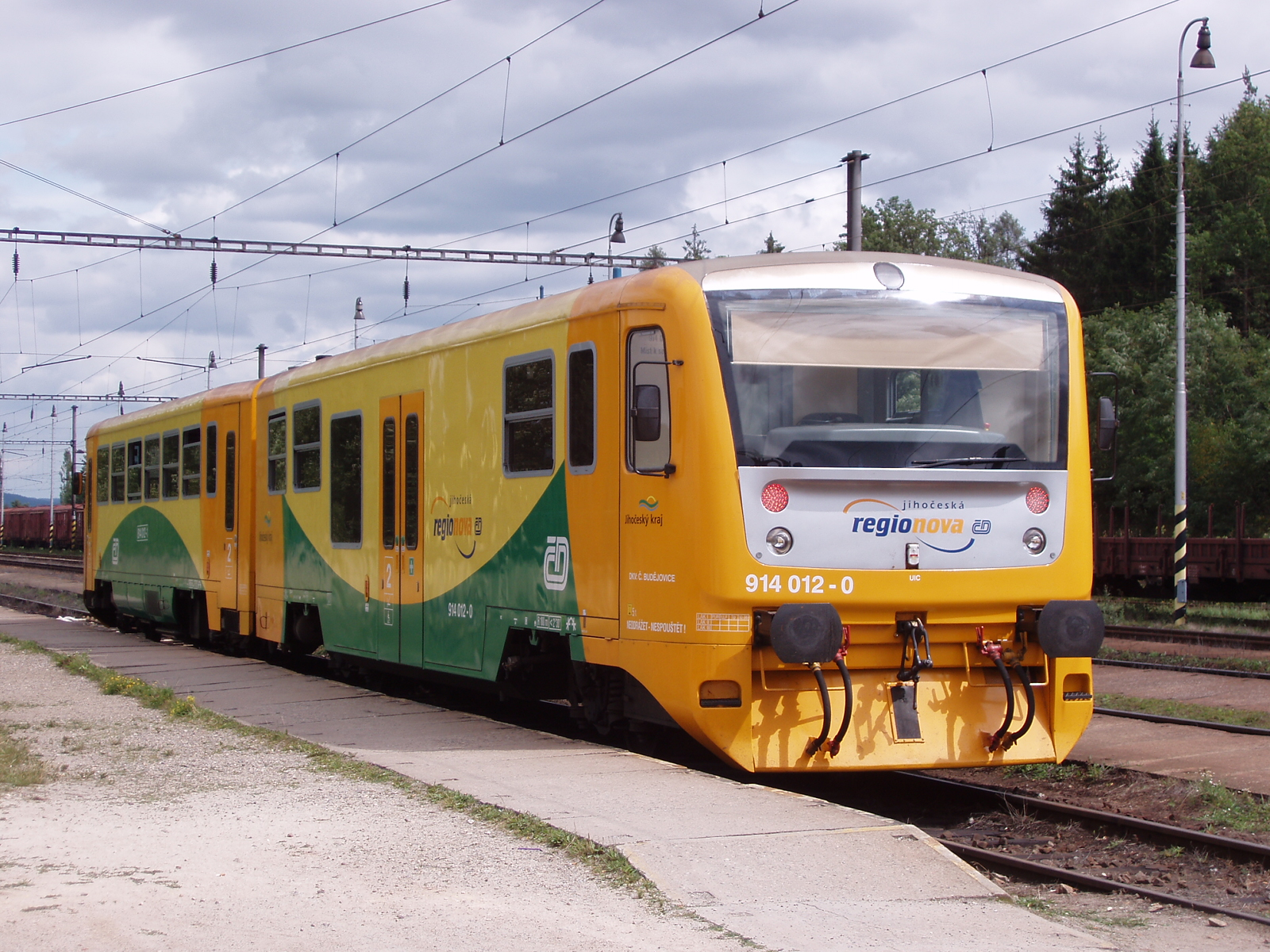 diesel multiple unit CD 814 at Ražice station